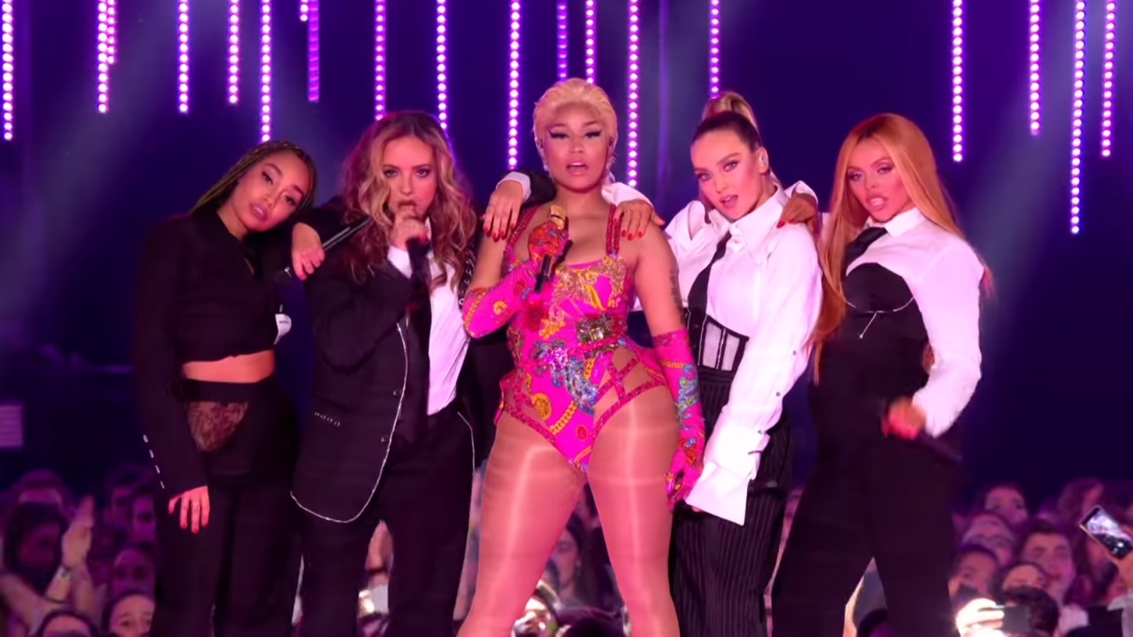 Little Mix and Nicki Minaj perform "Good Form" and "Woman Like Me" at the 2018 European Music Awards in Bilbao.